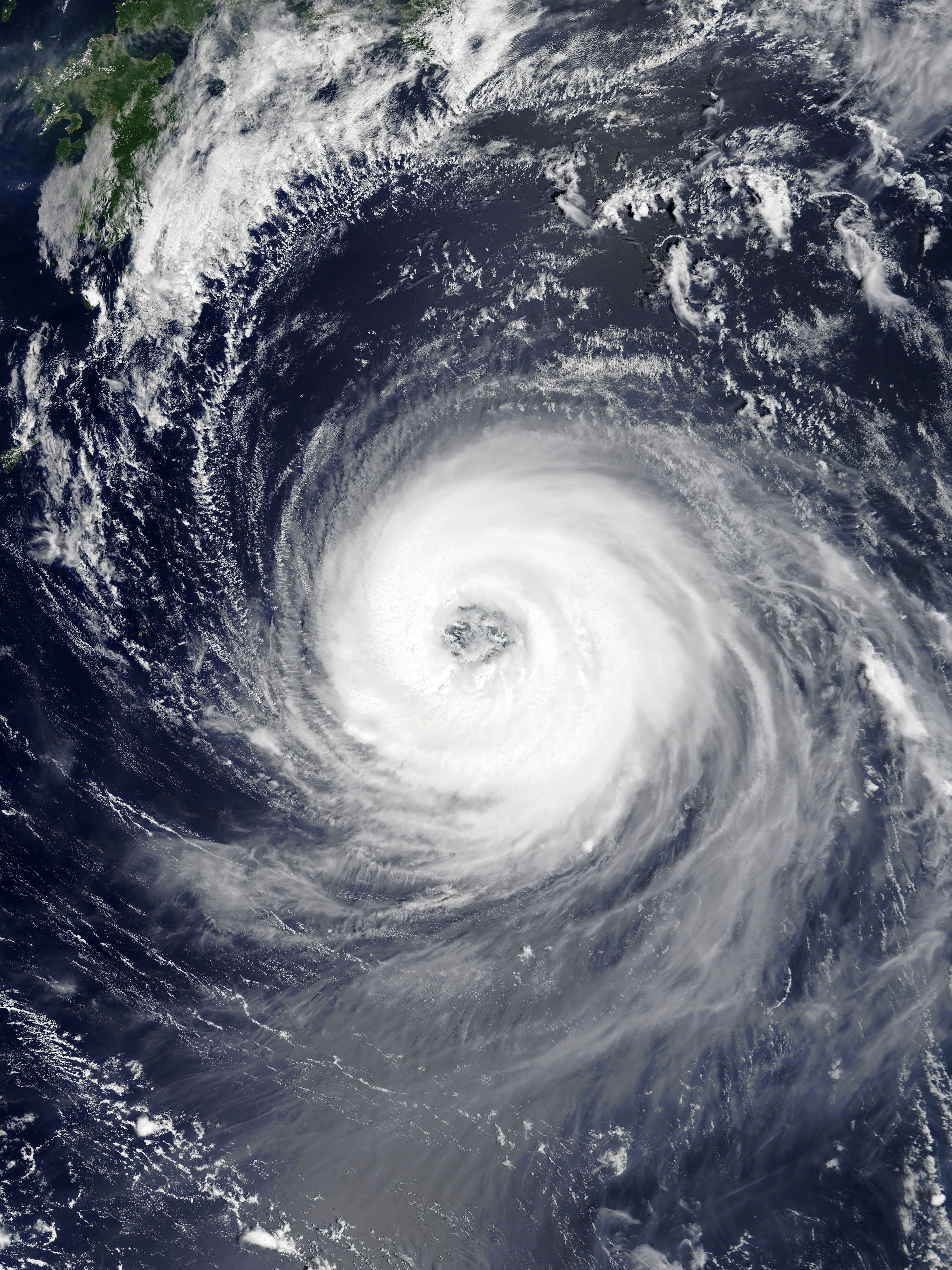 Typhoon Soulik south of Japan on August 20, 2018, with a large eye and annular characteristics.